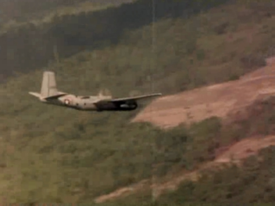 A "Farm Gate" Douglas B-26B bomber from Bien Hoa air base, Vietnam, attacking a target in November 1962. These aircraft were flown by USAF crews with Vietnamese markings.